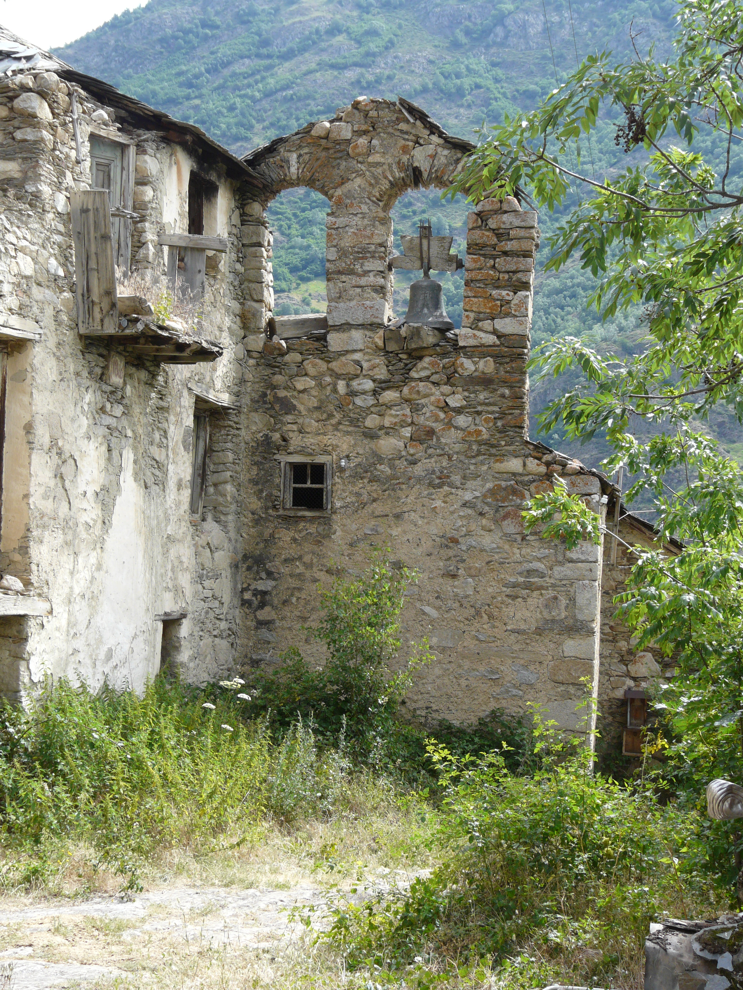 The church Sant Serni in the abandoned village of Àrreu from the west.